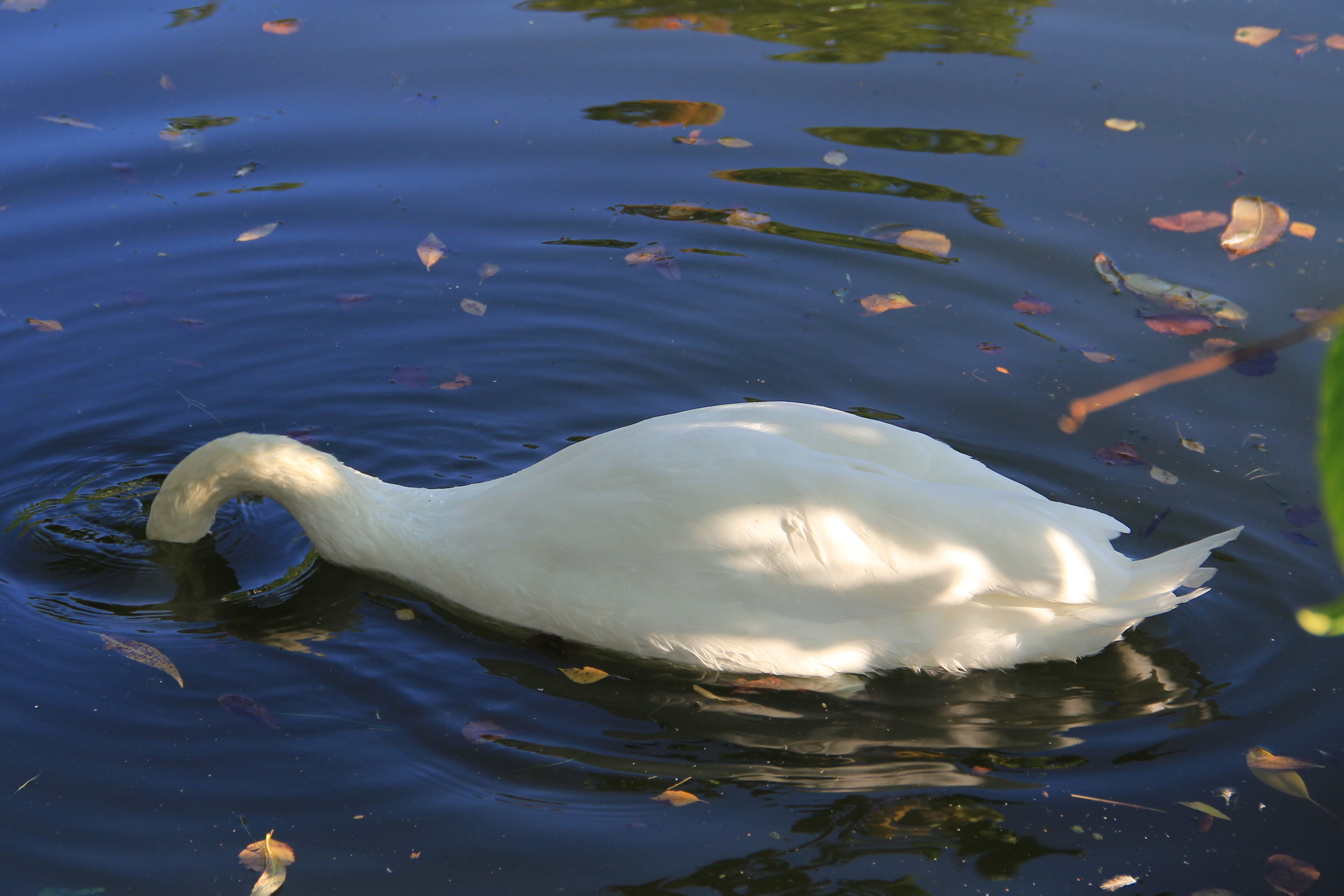 Ankkalammi park, Forssa, Finland. - The other whooping swan living in the park at summer.